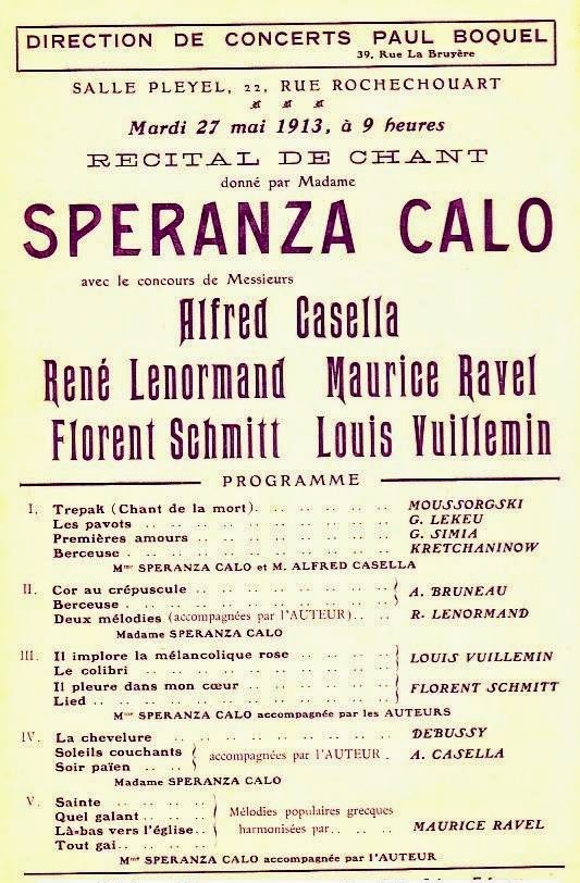 Publicity for opera singer Spéranza Calo-Séailles 27 May 1913